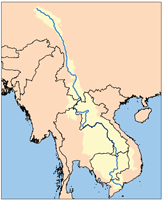 This is a map of the Mekong River Watershed. I, Karl Musser, created it based on USGS data.